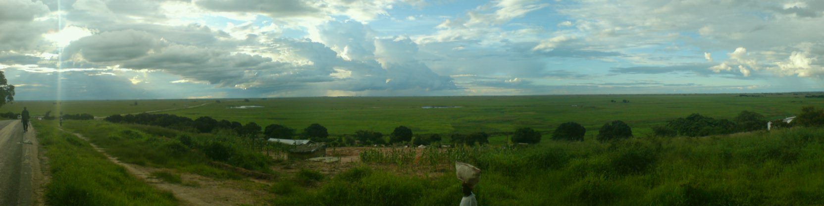 View of the Zambezi Flood Plain.